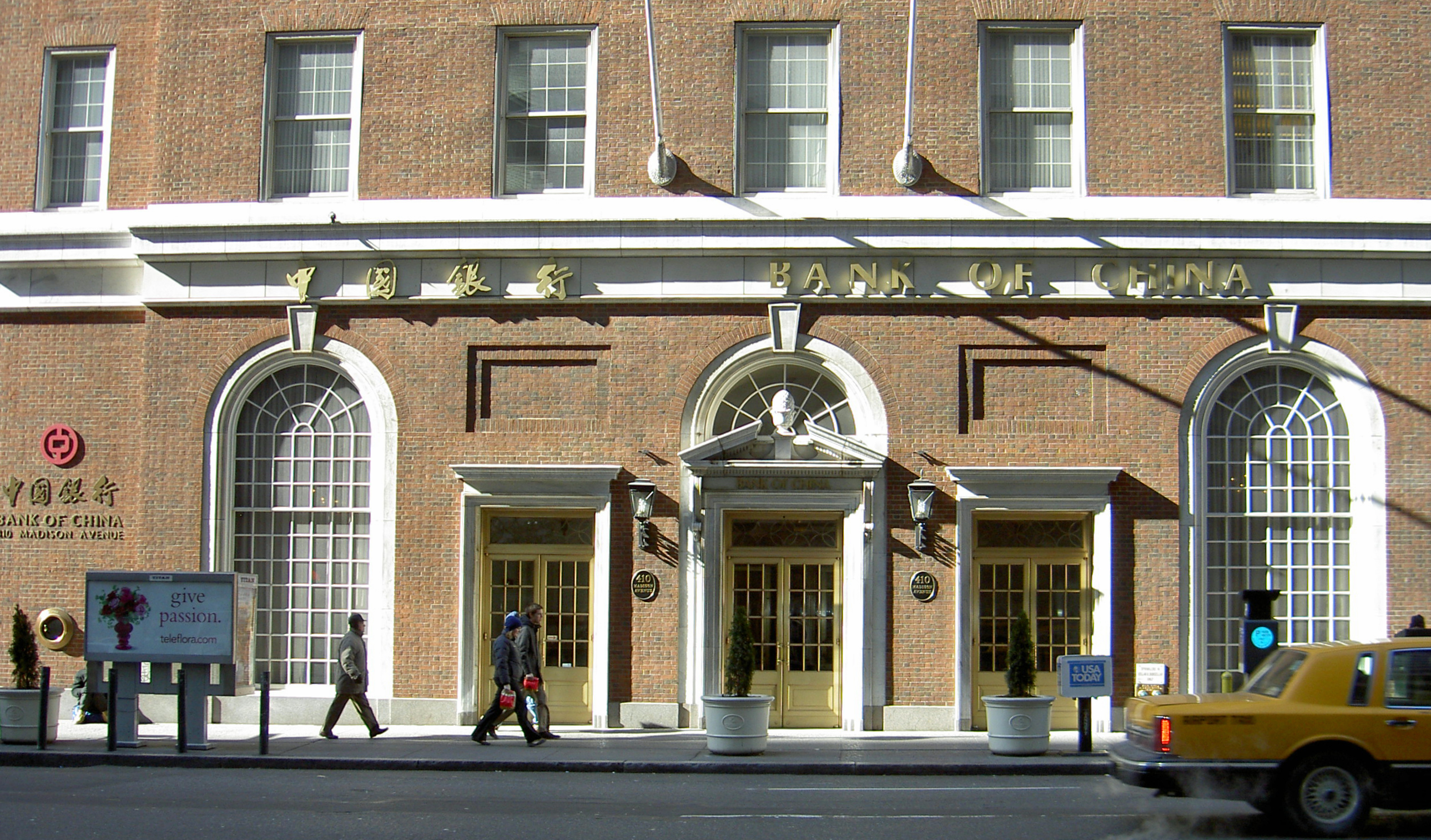 Bank of China by David Shankbone